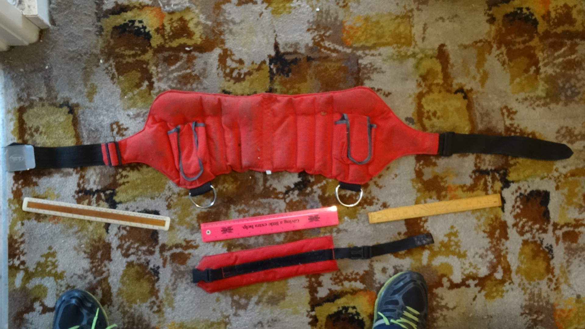 Scuba diver's shot belt, and lead-shot-filled anklet, and foot rules for scale.